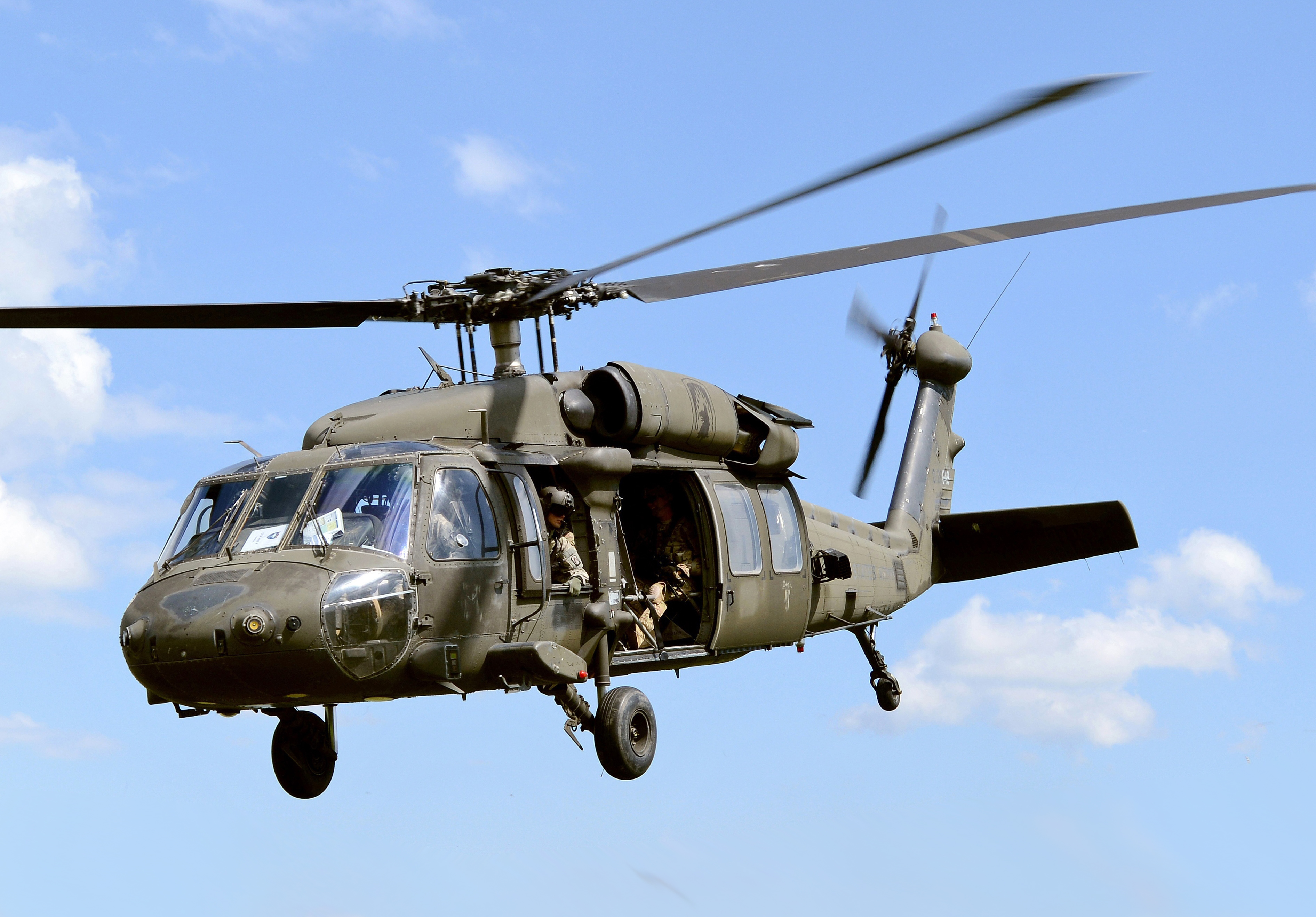 U.S. Soldiers assigned to the 2nd Squadron, 2nd Cavalry Regiment conduct air movement training in preparation for their upcoming deployment at the Joint Multinational Training Command's Grafenwoehr Training Area, Bavaria, Germany, Aug. 13, 2013. (DoD photo by Gertrud Zach, U.S. Army/Released)